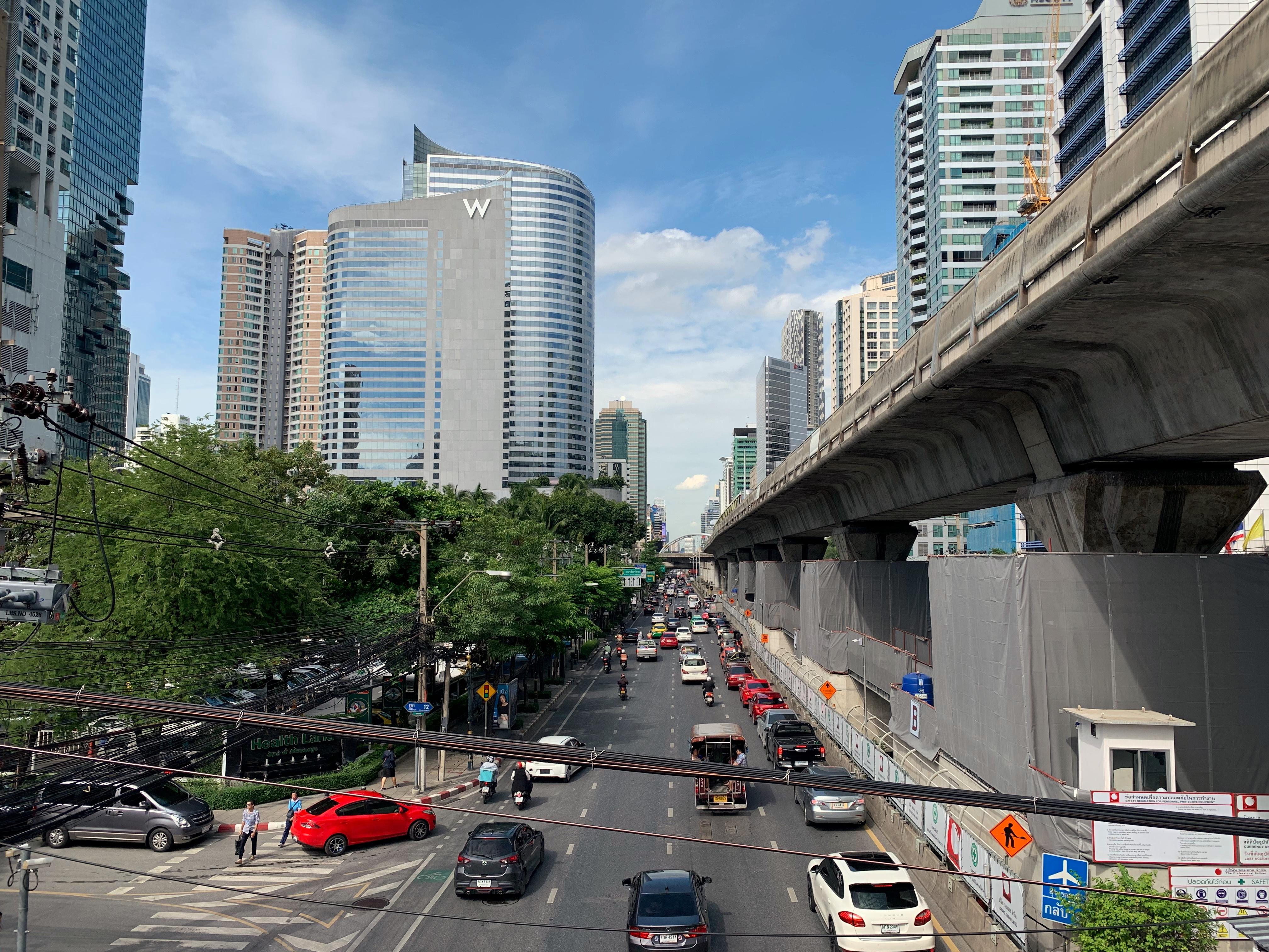 Sathon Neua Road (ถนนสาทรเหนือ)